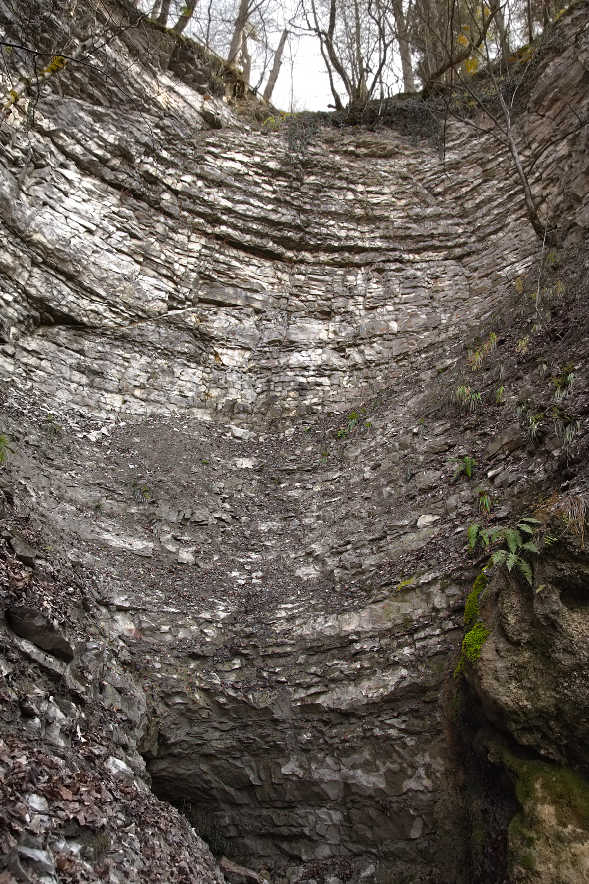 Teufelsklinge, mountain cliff and small v-shaped valley, eroded by Scree and water at the Albtrauf (cuesta) of the eastern Swabian Alb.